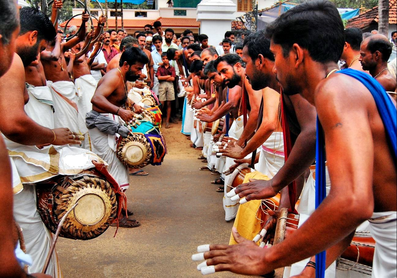 Panchavadyam means an orchestra of 5 instruments originates from Kerala and is a temple associated art form. This is composed of 4 percussion instruments Timila, Maddalam , Edakka, Elathalam and a wind instrument Kompu. A larger ensemble of this orchestral form is also called sevanga panchavadyam. Similar to chenda melam, panchavadyam is also characterised by a pyramid rhythmic structure, the ever increasing tempo, and the proportionally decreasing number of beats in a cycles.